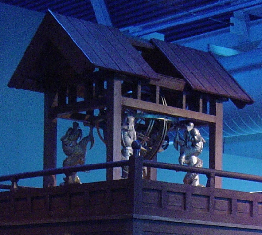 Close up of the armillary sphere on the roof of Su Song's Water Clock. This picture is from a scaled model of Su Song's water-powered clock tower. The original clock tower was 35 feet tall. It was a 3 story tower with an armillary sphere on the roof, and a celestial globe on the third floor. This picture was taken in July 2004 from an exhibition at Chabot Space & Science Center in Oakland, California. The quality of the picture is not ideal because flash photography was not allowed.